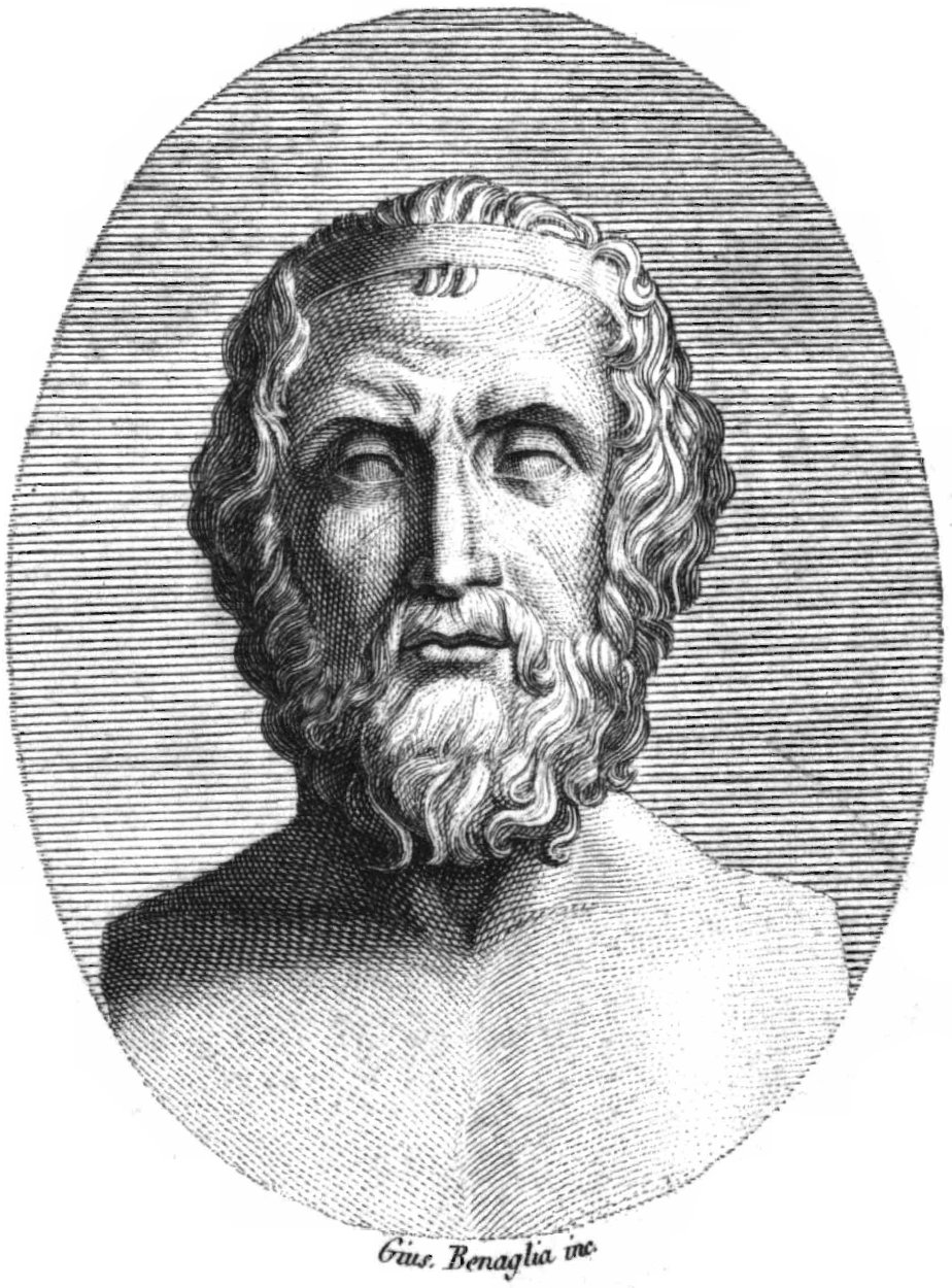 Image from book Iliade